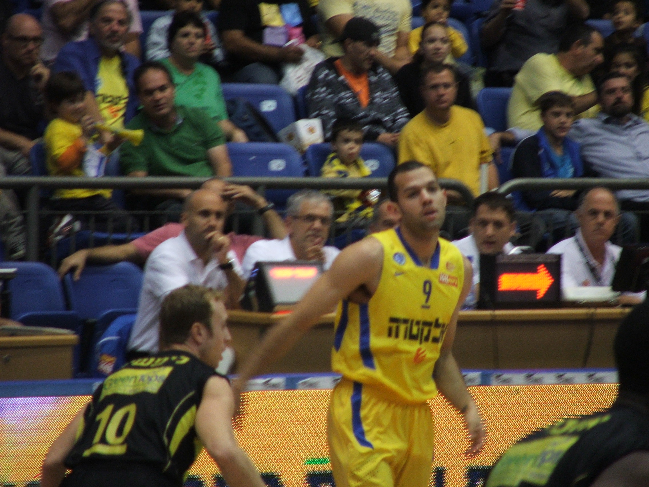 Maccabi Tel Aviv VS. Barak Netanya 31/10/11